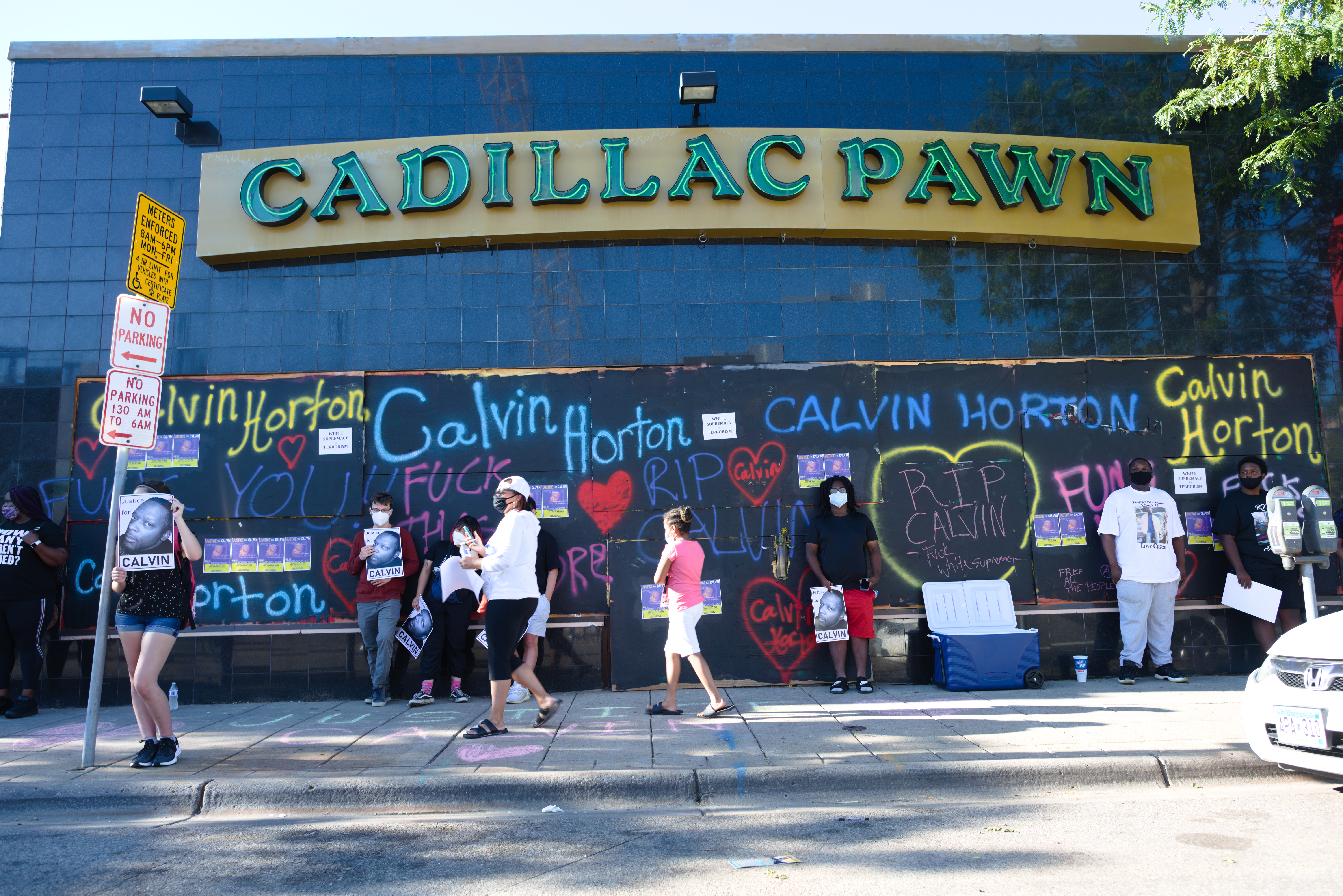 Minneapolis, Minnesota July 21, 2020 Around 200 gathered outside Cadillac Pawn on Lake Street to demand justice for Calvin Horton. On May 27th, during protests against the murder of George Floyd by Minneapolis police officers, the owner of Cadillac Pawn & Jewelry, John Rieple, shot out from his store and killed Calvin Horton. The protesters demanded that Hennepin County Attorney Mike Freeman charge John Rieple with murder, and they demanded that surveillance recordings be shared with Calvin Horton's family. 2020-07-21 This is licensed under the Creative Commons Attribution License. Give attribution to: Fibonacci Blue